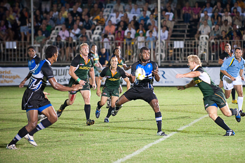 SA Vipers against Fijian side Davetalevu in the SCC Rugby Sevens finals